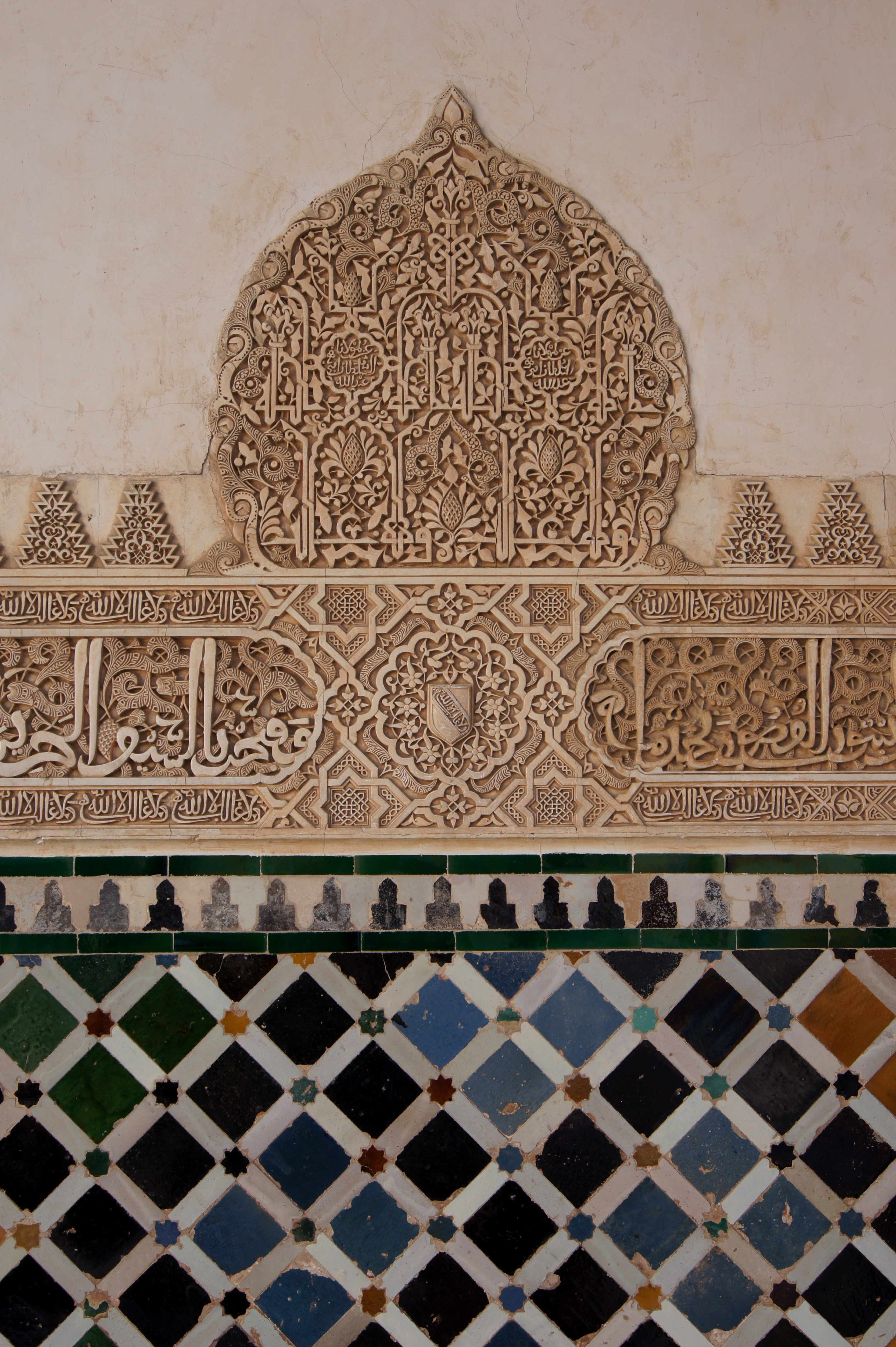 Mosaics and arabesques on a wall of the Myrtle court, Alhambra, Granada, Spain